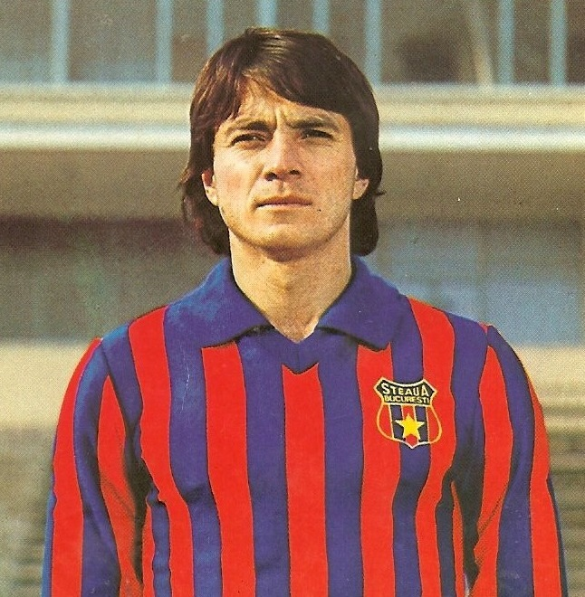 Tudorel Stoica with Steaua Bucharest